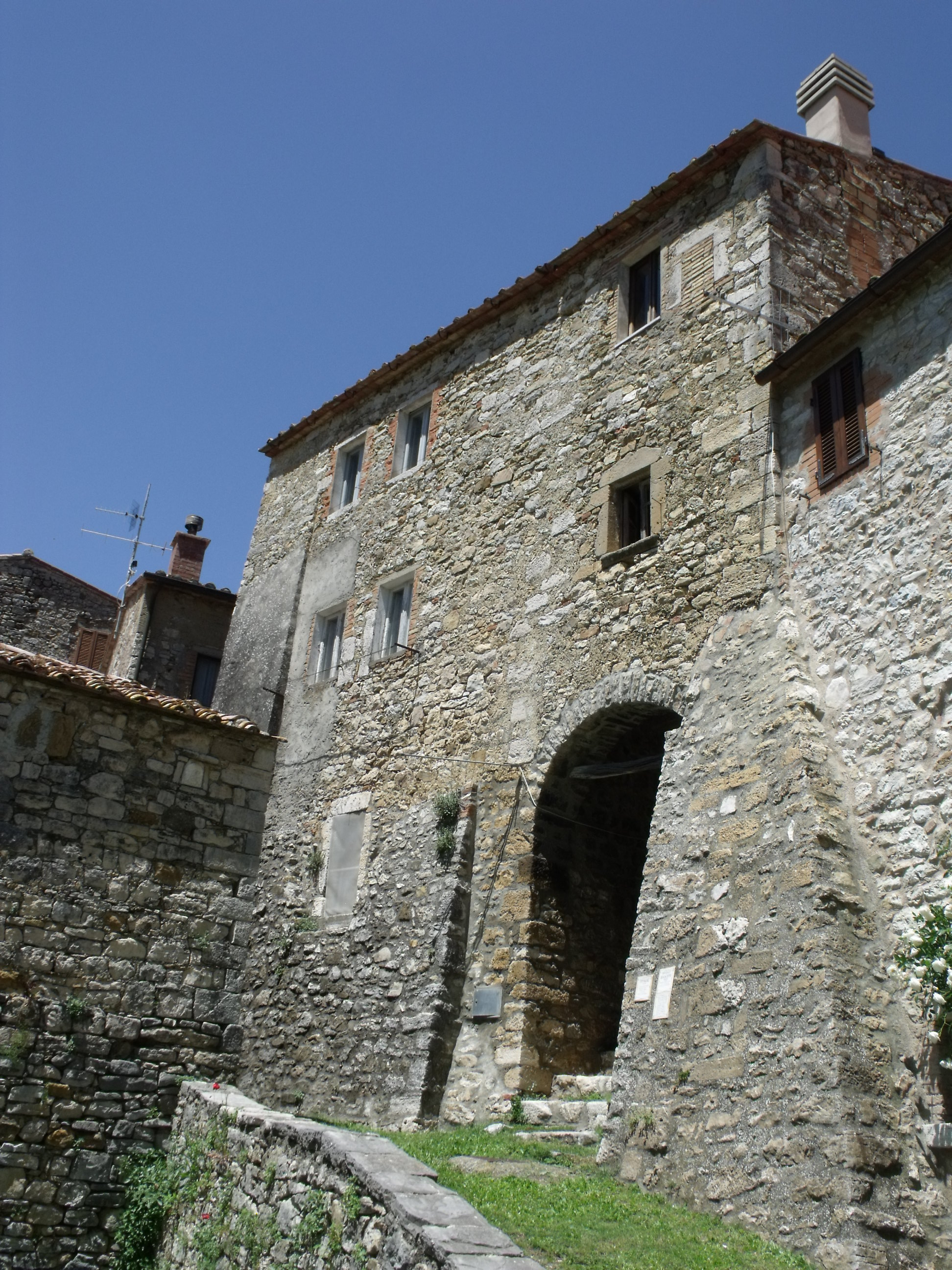 Ospedale San Tomme (Ospedale di San Tommaso) in Rocchette di Fazio, hamlet of Semproniano, Maremma, Province of Grosseto, Tuscany, Italy